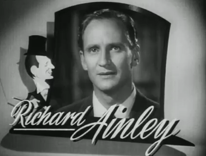 Richard Ainley in Three Hearts for Julia, by Richard Thorpe (1943)